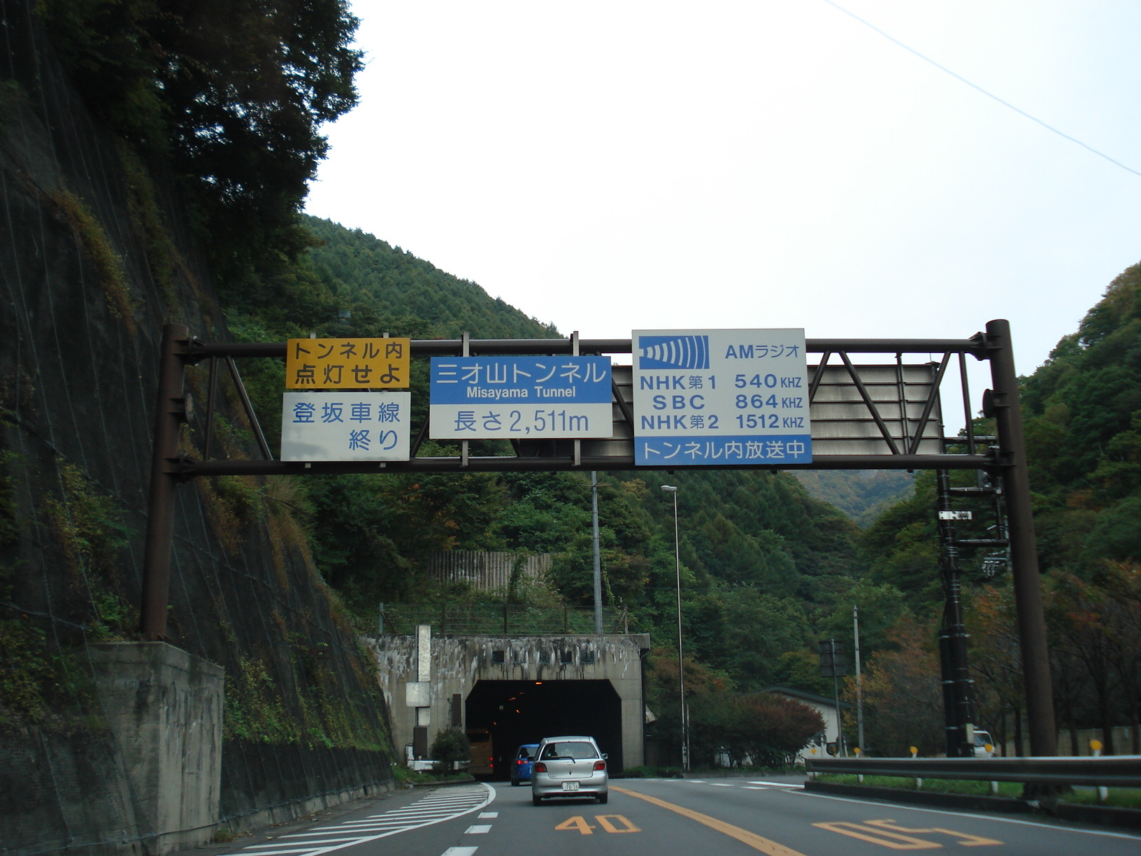 Matsumoto side portal of the Misayama Tunnel on the Misayama Tunnel Toll Road